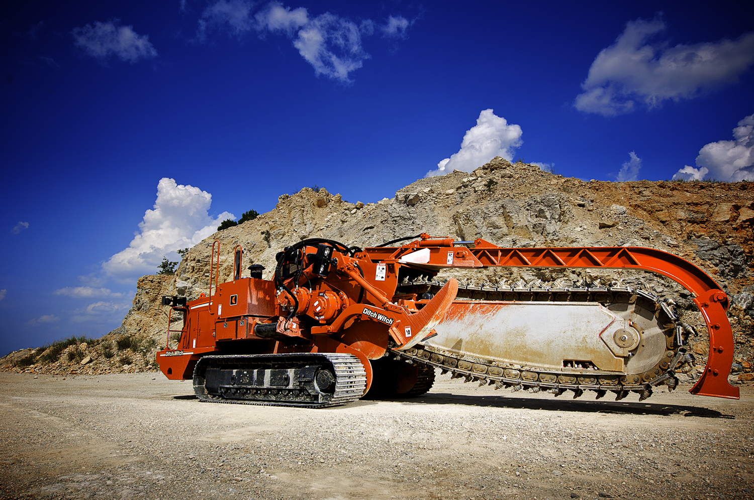 Ditch Witch HT330 Track Trencher.